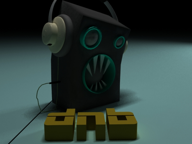 This is a 3D model of a bizzare style speaker listening to drum and bass.